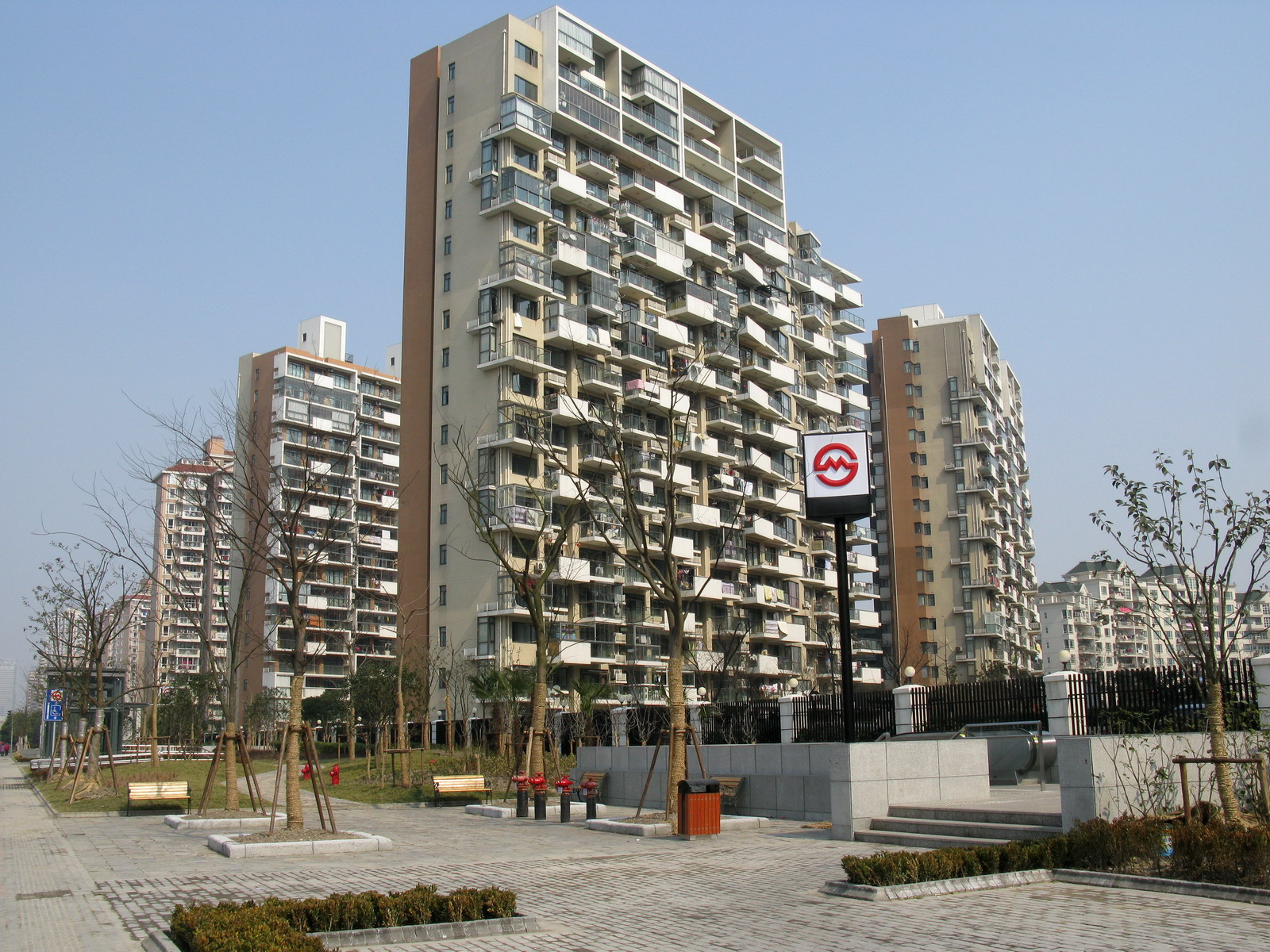 上海儿童医学中心站 2号口 Shanghai Children's Medical Center Station, Exit No.2